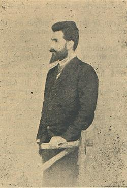 Portrait of bulgarian revolutionary from IMARO Parashkev Tsvetkov, died in 1903